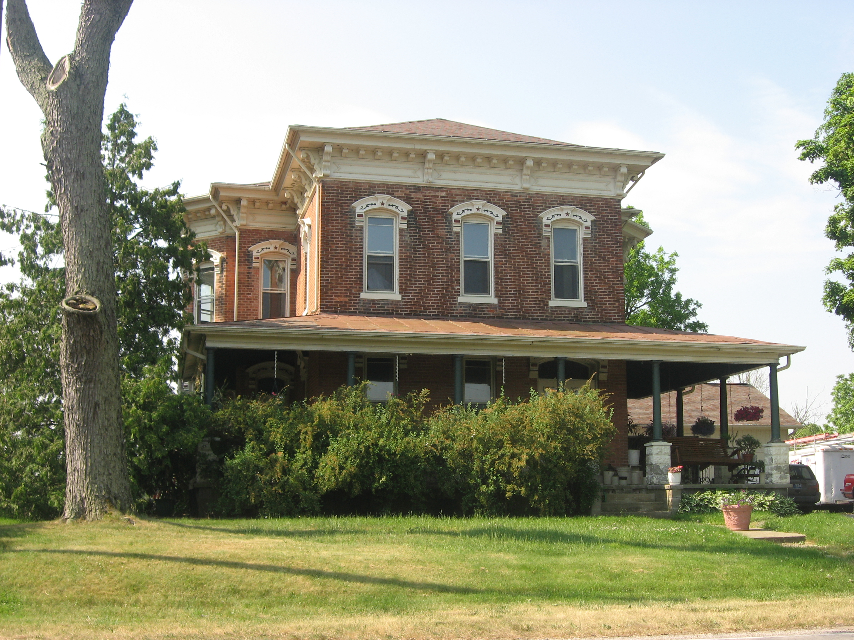 Front of the Dr. Christopher Souder House, located at 214 W. Main Street (State Road 5) in Larwill, Indiana, United States. Built in 1877, it is listed on the National Register of Historic Places.